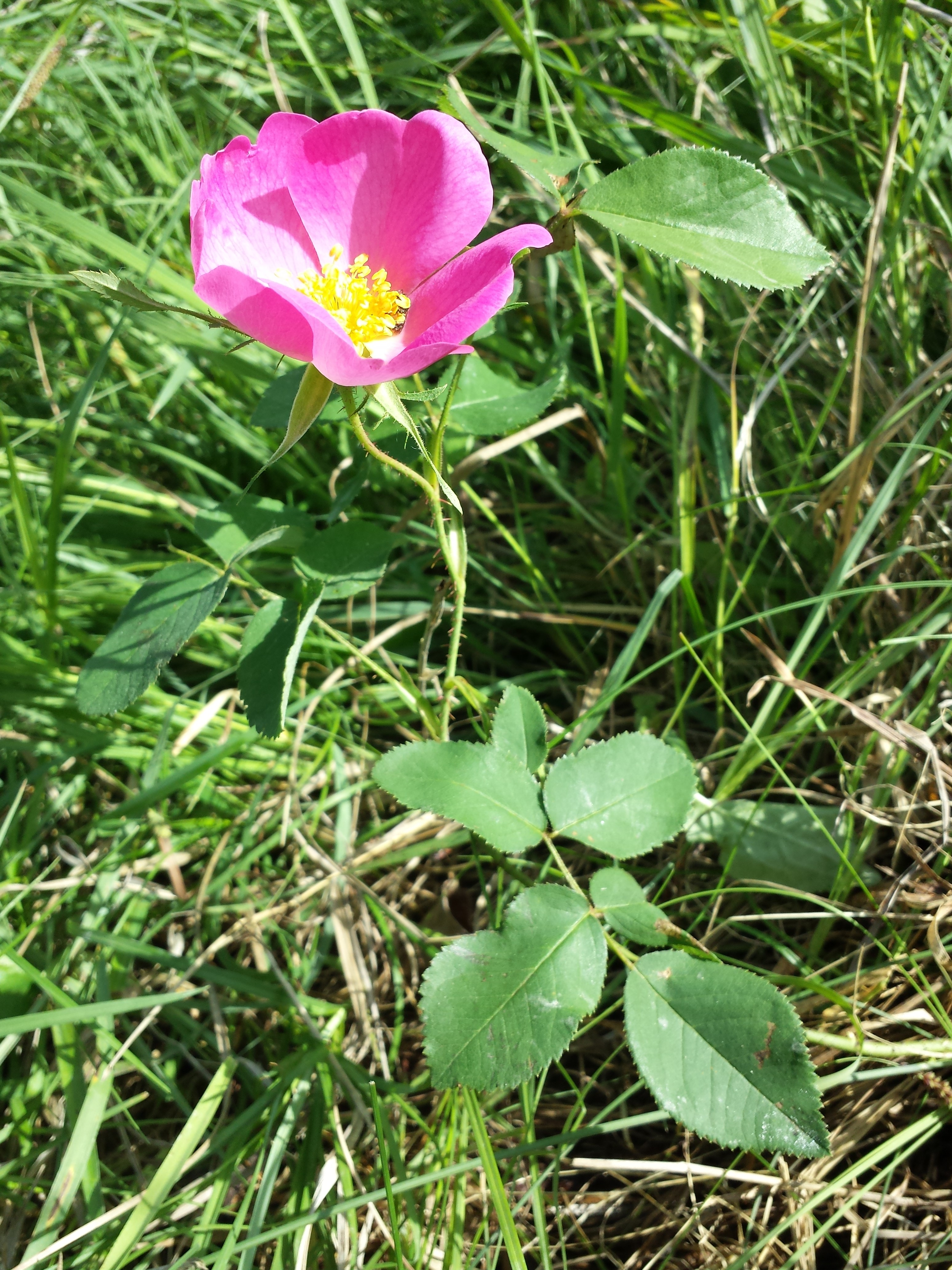 Habitus Taxonym: Rosa gallica ss Fischer et al. EfÖLS 2008 ISBN 978-3-85474-187-9 Location: semi-dry grassland to the Northeast of Herzogbirbaum, district Korneuburg, Lower Austria - ca. 250 m a.s.l. Habitat: semi-dry grassland